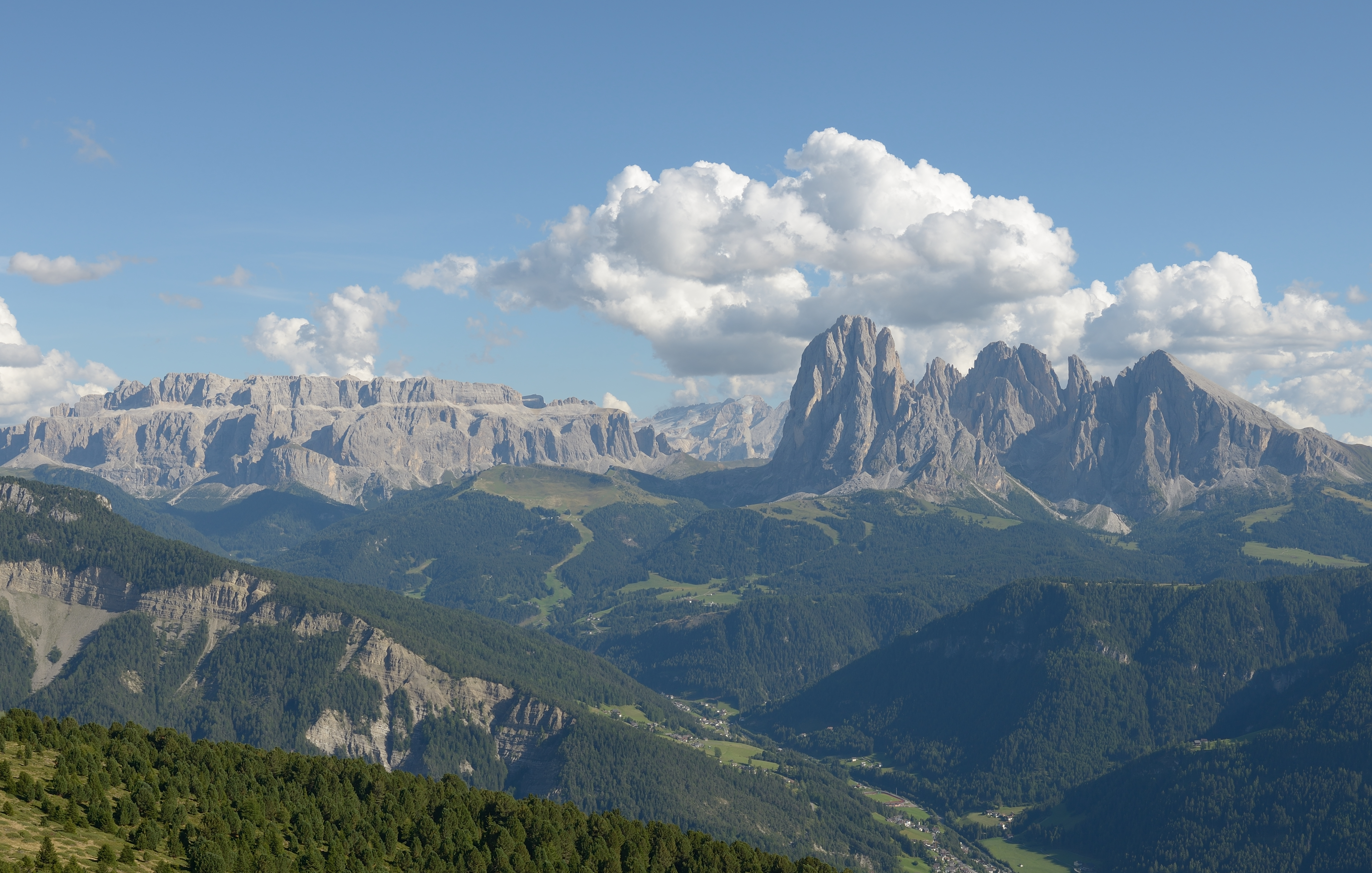 Sella group (left), Langkofel group (right) and Sellajoch (centre) in the Dolomites